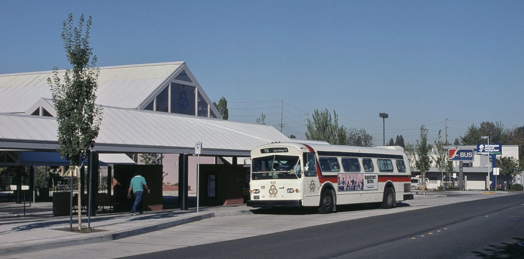 TriMet's Tigard Transit Center in 1988, about eight months after its opening (on January 10 of that year). Bus 425, a 1972 Flxible "New Look" bus, is bound for Lake Oswego TC on line 78. In the background is a sign for Greyhound Lines, which had a stop and small ticket office there at that time, but which later closed.